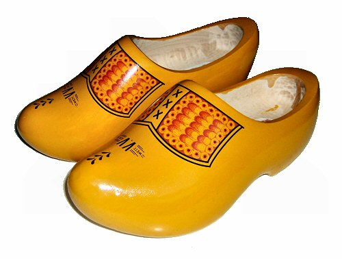 Dutch poplar wooden shoes (clogs) for every day use. Brand: Gevavi ((Gebroeders) Van Vilsteren)